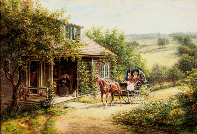 Unexpected Visitors a painting by Edward Henry Lamson (1841-1919)